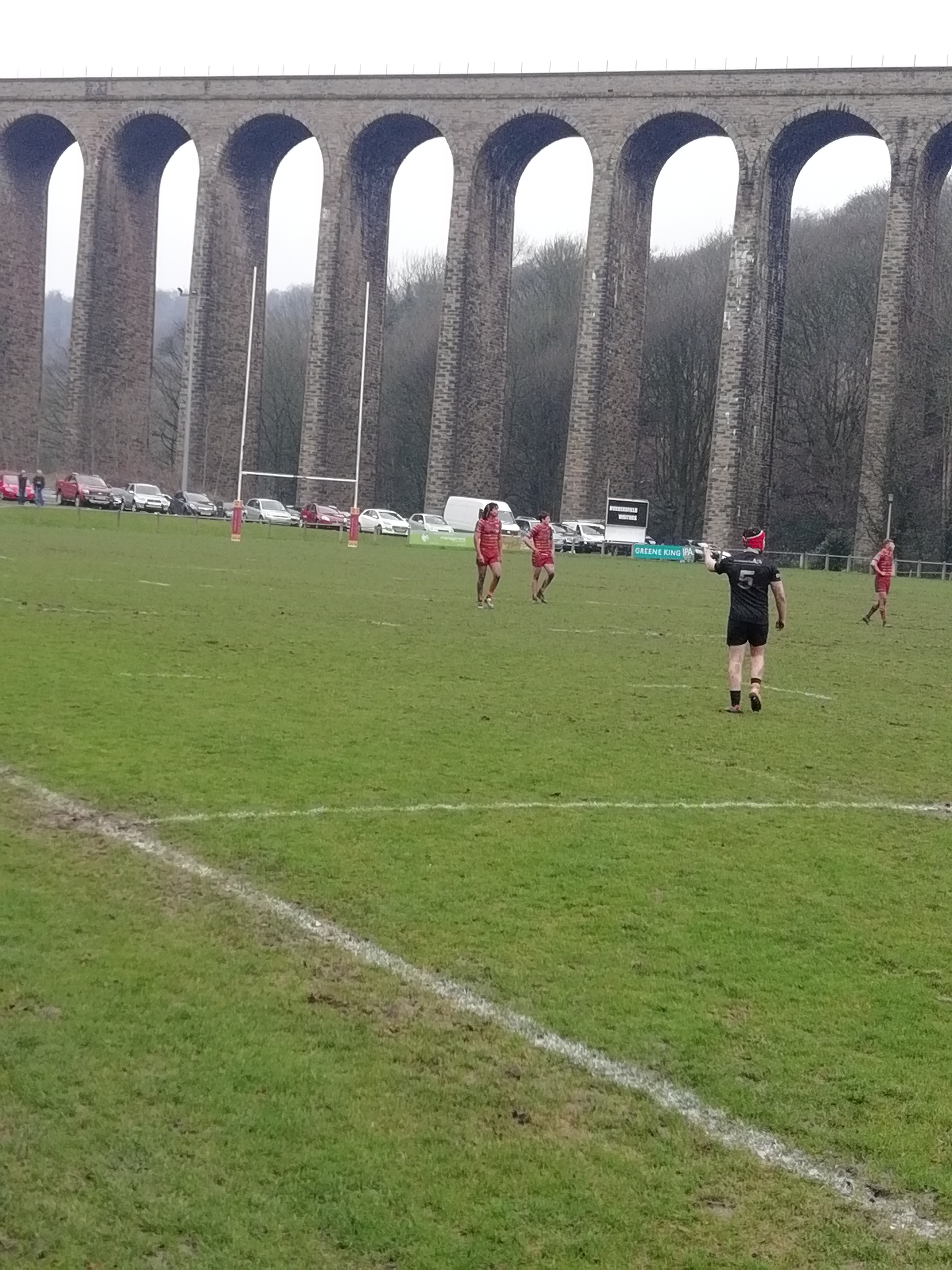 The ground is under the impressive Lockwood viaduct